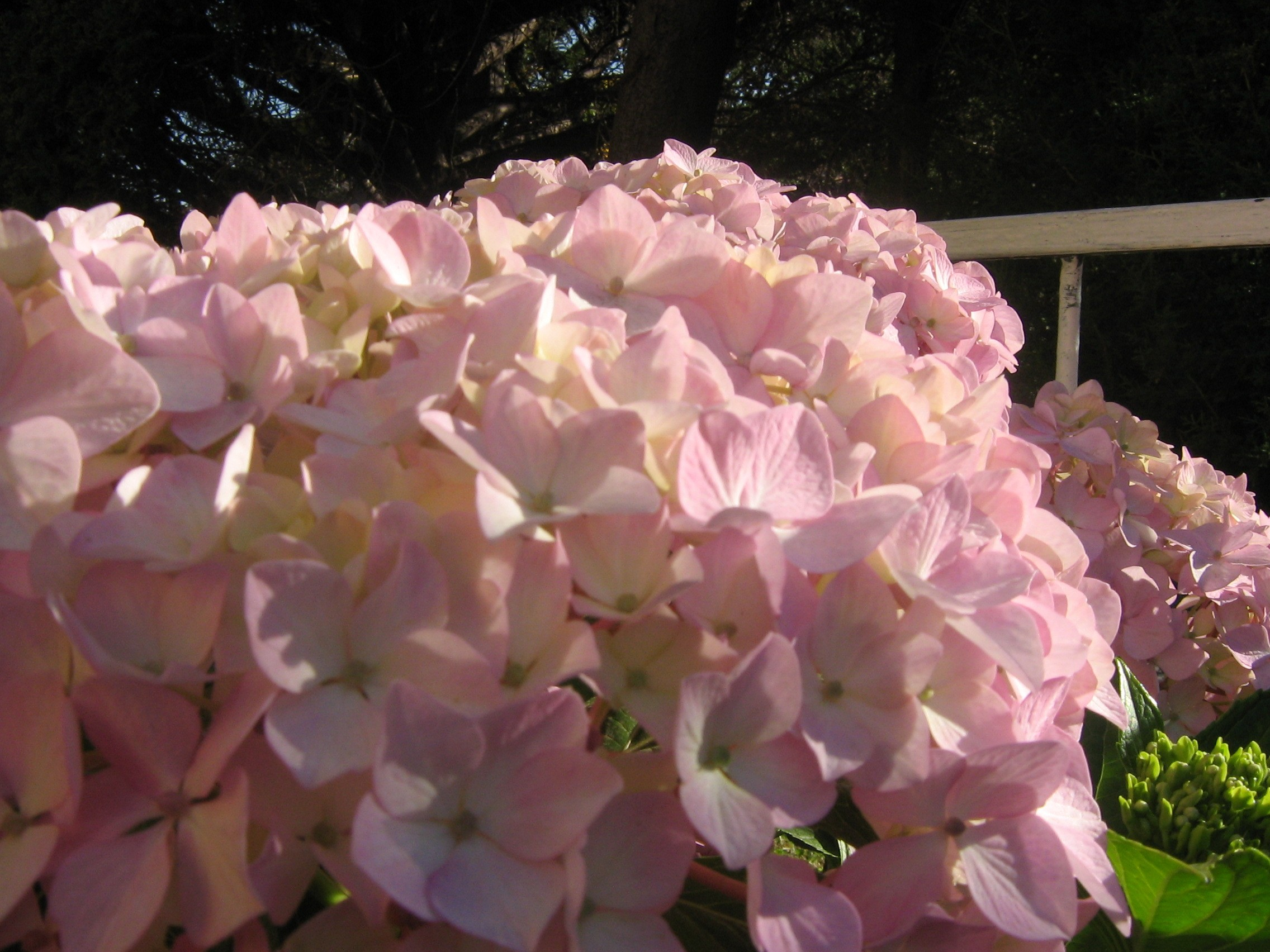 Hydrangea macrophylla, rose color variety